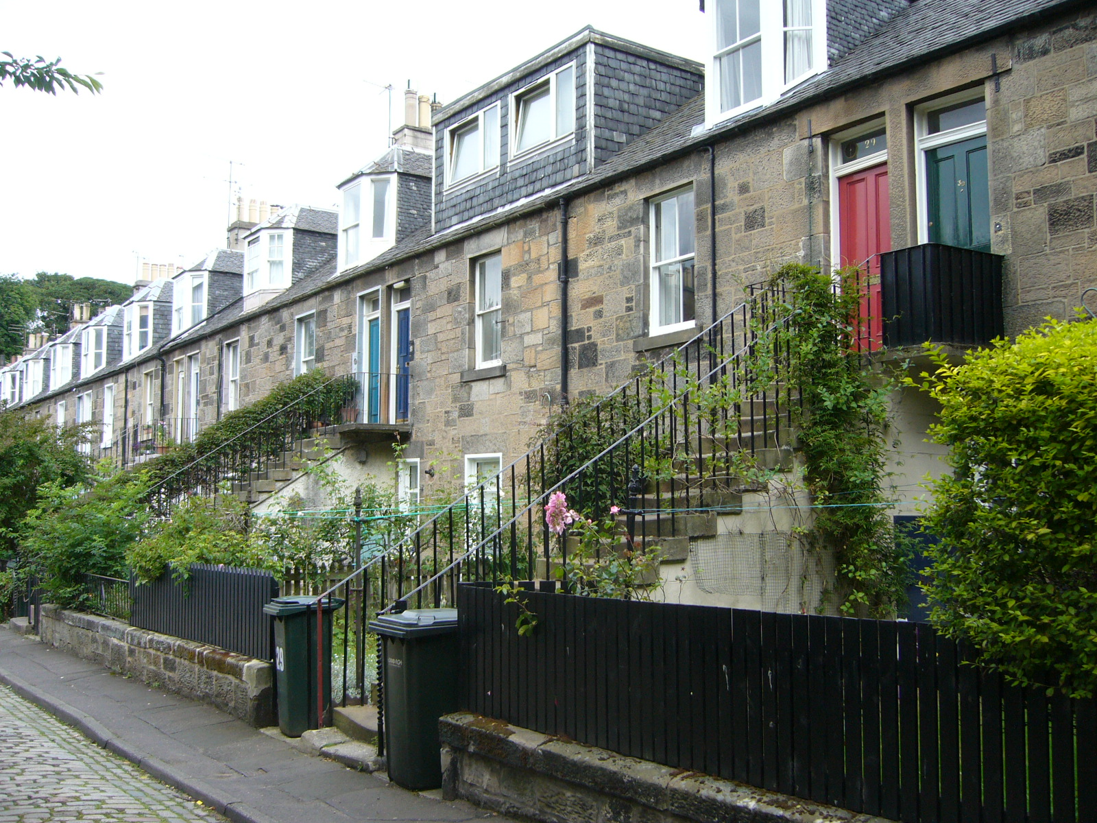 One of several streets known as the 'Colonies' in the Stockbridge area of Edinburgh. The houses, dating from 1861, were built by the Edinburgh Co-operative Building Company when housing reformers decided to break with the Scottish tenement tradition in favour of working-class homes that would provide each family with its own front door and garden. The lack of indoor bathrooms meant that residents used the nearby public Glenogle Baths. Similar 'colonies' on a smaller scale exist in other parts of Edinburgh, such as Abbeyhill, Leith Links, Pilrig, Shandon and Slateford.